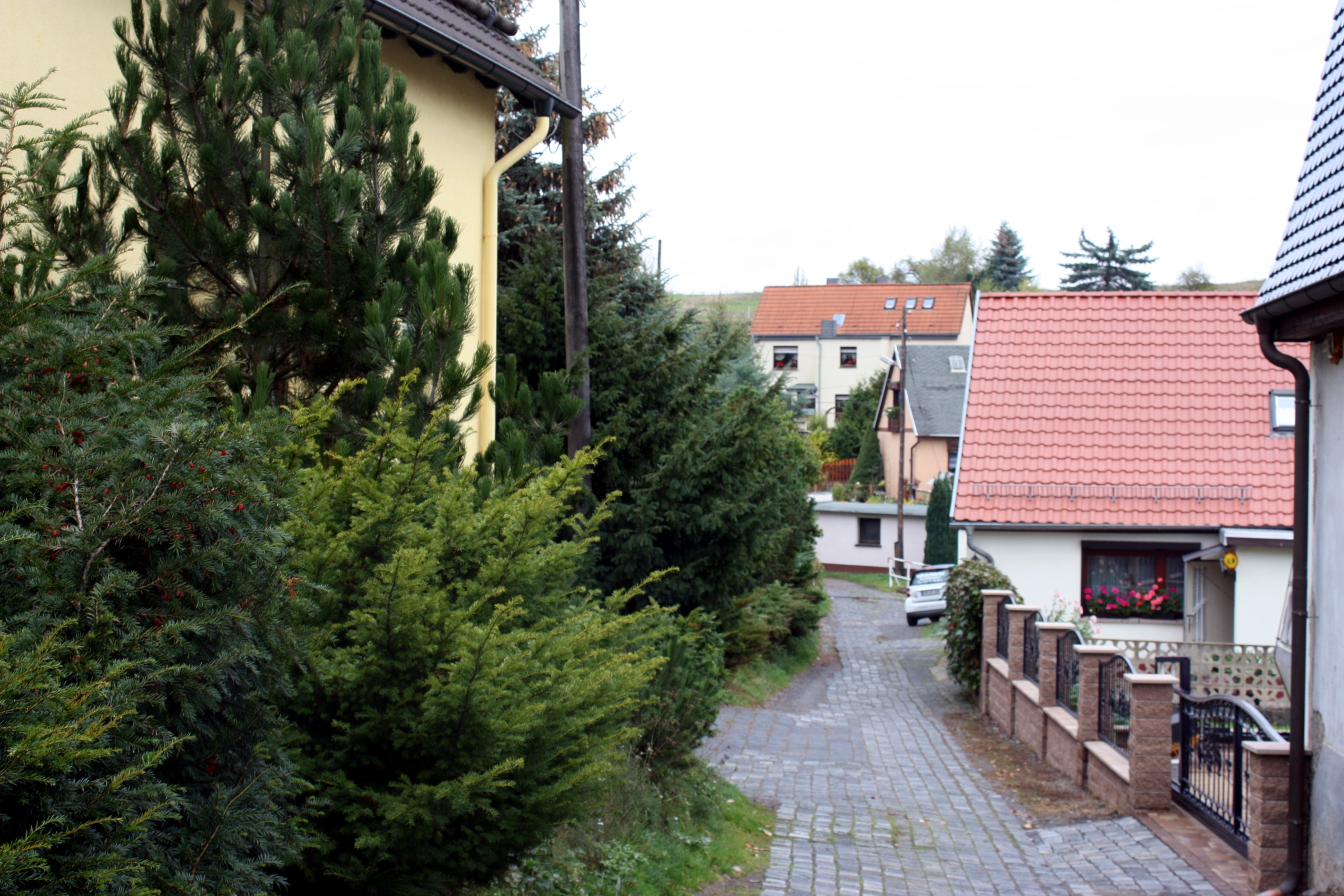 Ziegelrode (Ahlsdorf), the Schlippe